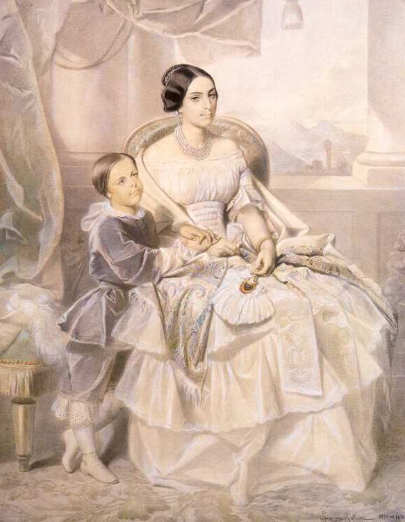 Adelaide, Queen of Sardinia with her eldest son the future Umberto I of Italy